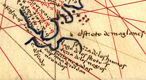 Detail of a world map from the Portalan atlas of Battista Agnese. The third name from the bottom-left says Campana de Roldan after the Flemish sailor Roldán de Argot who was the first to see the Pacific on the voyage of Magellan.